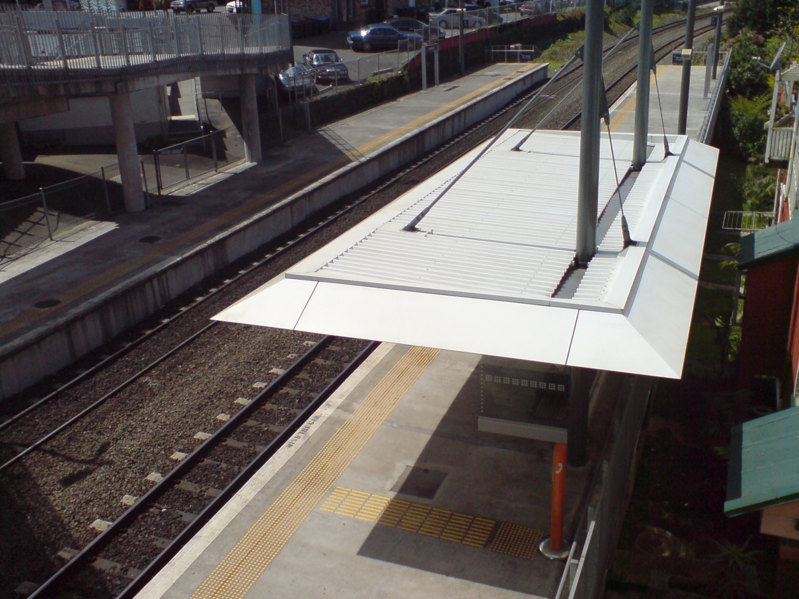 Kingsland Train Station in Auckland City, New Zealand. Looking eastwards from the pedestrian overbridge.